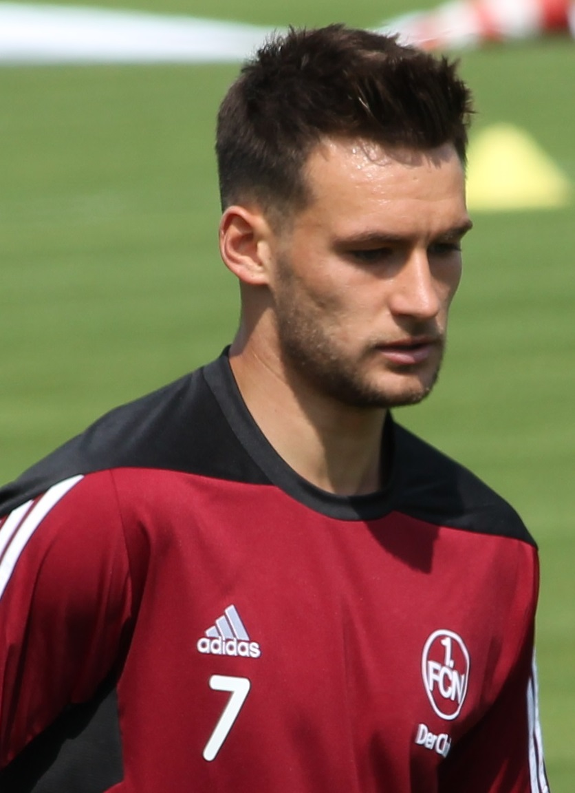 Danny Blum, player of 1. FC Nürnberg.